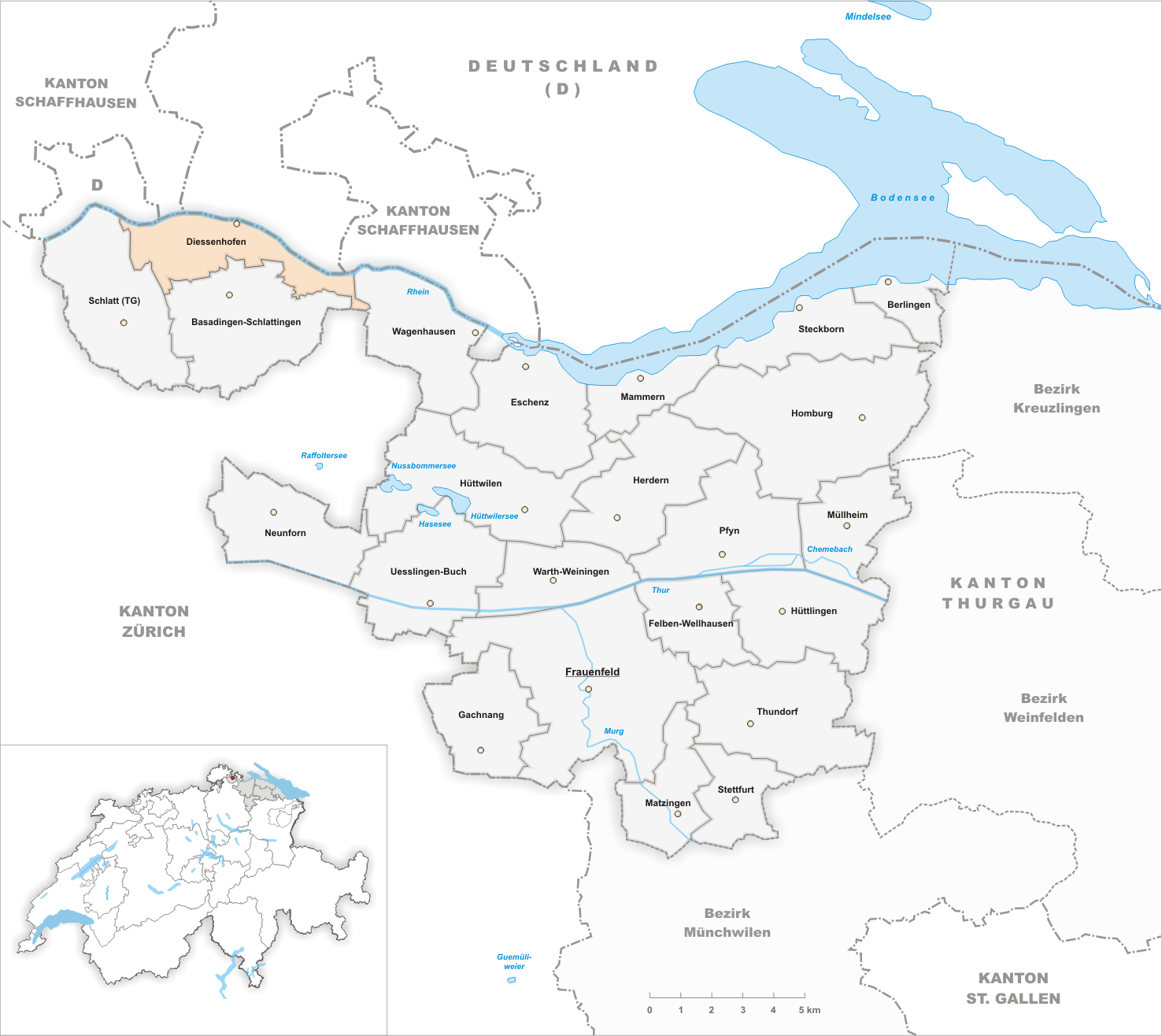 Municipality Diessenhofen